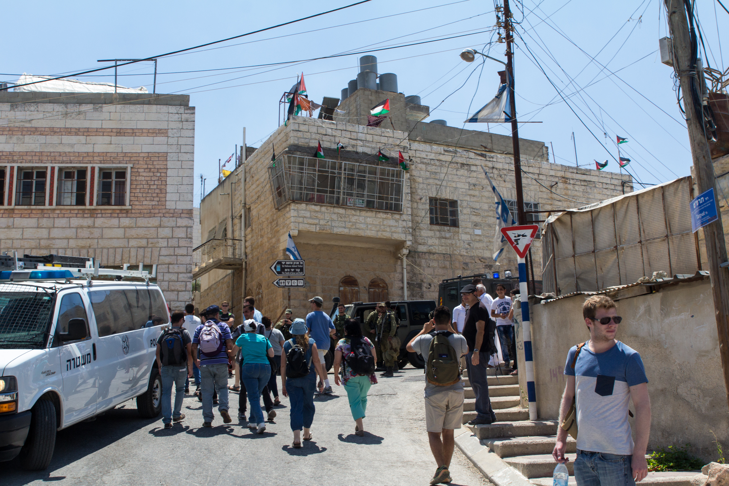 Breaking the Silence Hebron tour, August 28, 2015. Going up to Tel Rumeida, the tour was met by the army and police. The settlers were livid we were there and refused to let us go any further, despite no legal ground.